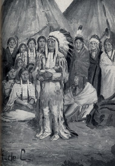 An Indian chieftain